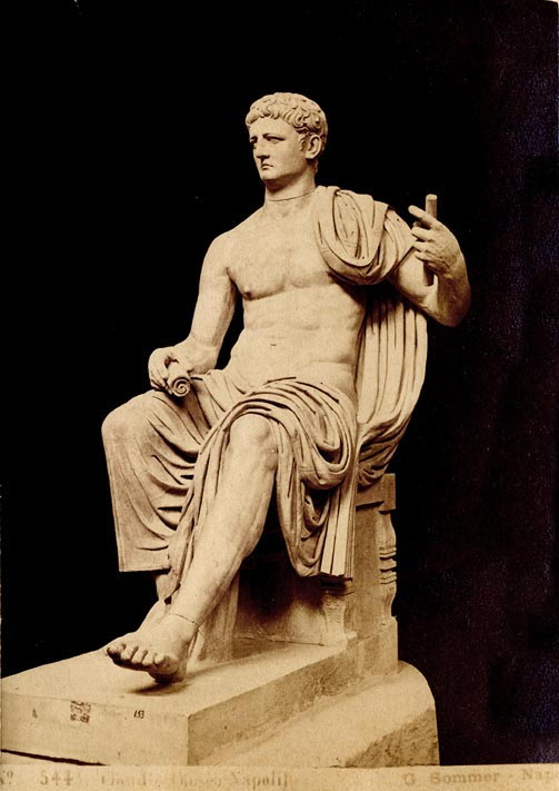 Giorgio Sommer (1834-1914) - "Claudius (Archaeological Museum (Naples)". Catalogue # 544.